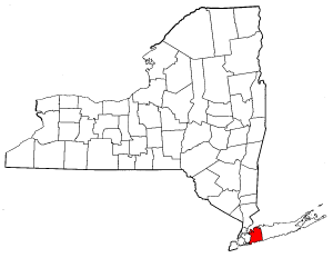 Nassau County, New York - showing its location within New York